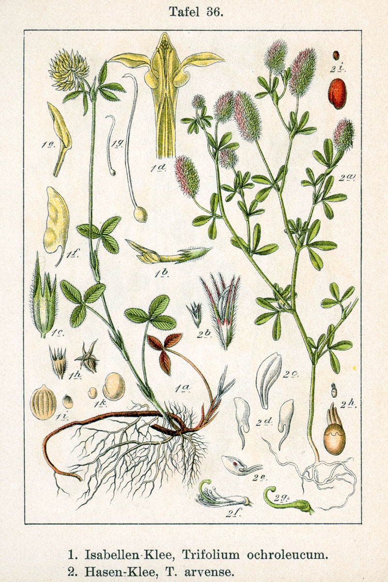 1. Trifolium ochroleucon Huds. 2. Trifolium arvense L. Original Description 1. Isabellen-Klee, Trifolium ochroleucum 2. Hasen-Klee, Trifolium arvense